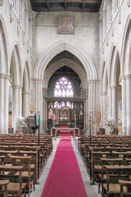 St Mary, Melton Mowbray, Leics - East end